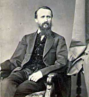 Stevenson Archer, US Representative from Maryland